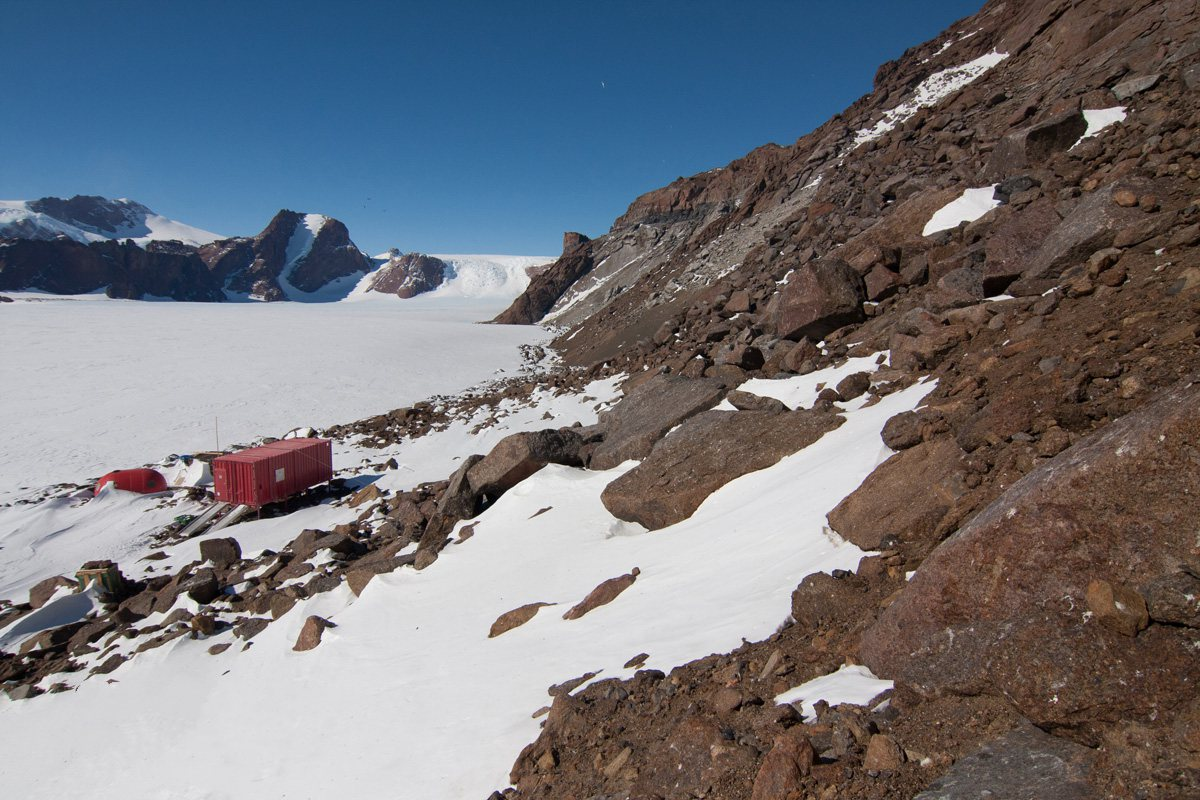 The Norwegian field station Tor in Antarctica. Svarthamaren is the largest known colony of Antarctic petrel